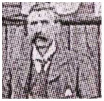 Dan McMichael photo